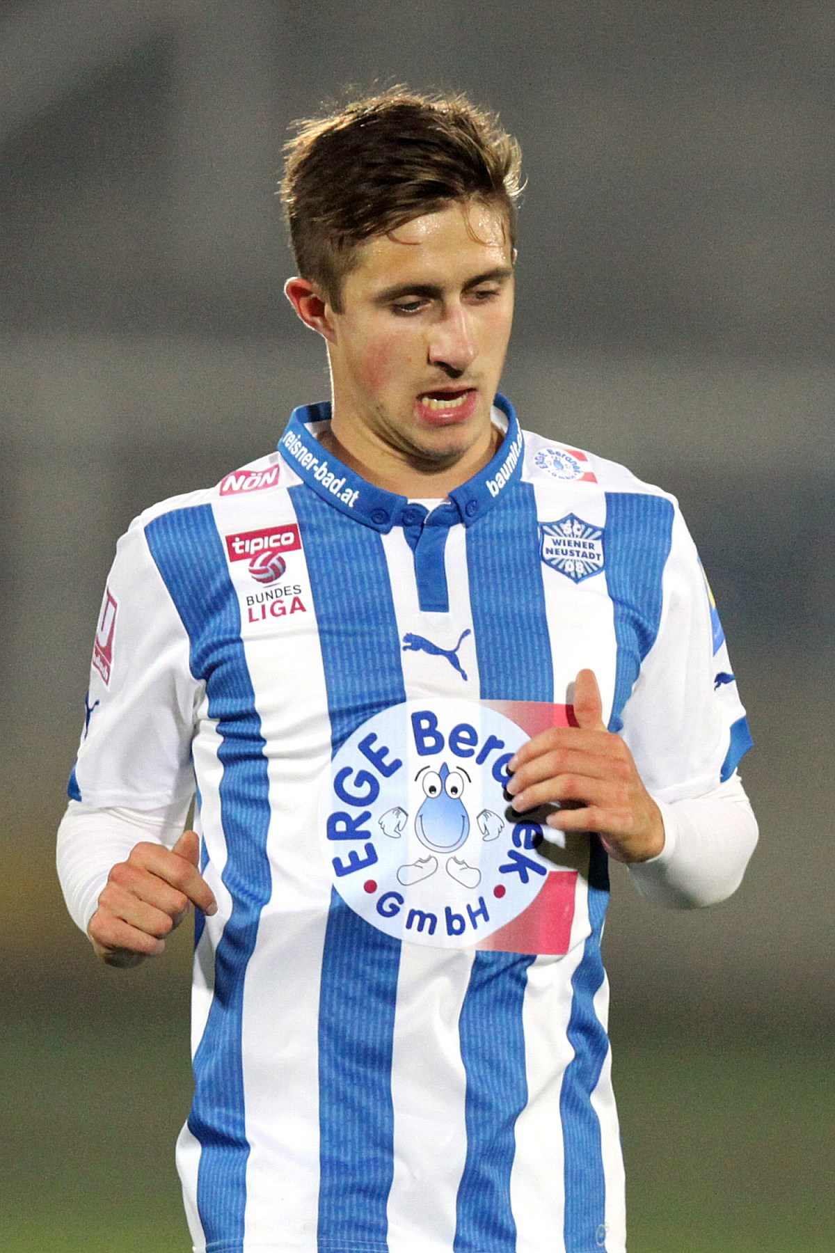 2014–15 Austrian Football Bundesliga: SC Wiener Neustadt vs. Wolfsberger AC (2:0 / 0:0) at 2014-11-22 in the Stadion Wiener Neustadt. – The photo shows en: (SC Wiener Neustadt/Wolfsberger AC). The making of this work was supported by Wikimedia Austria. For other files made with the support of Wikimedia Austria, please see the category Supported by Wikimedia Österreich.